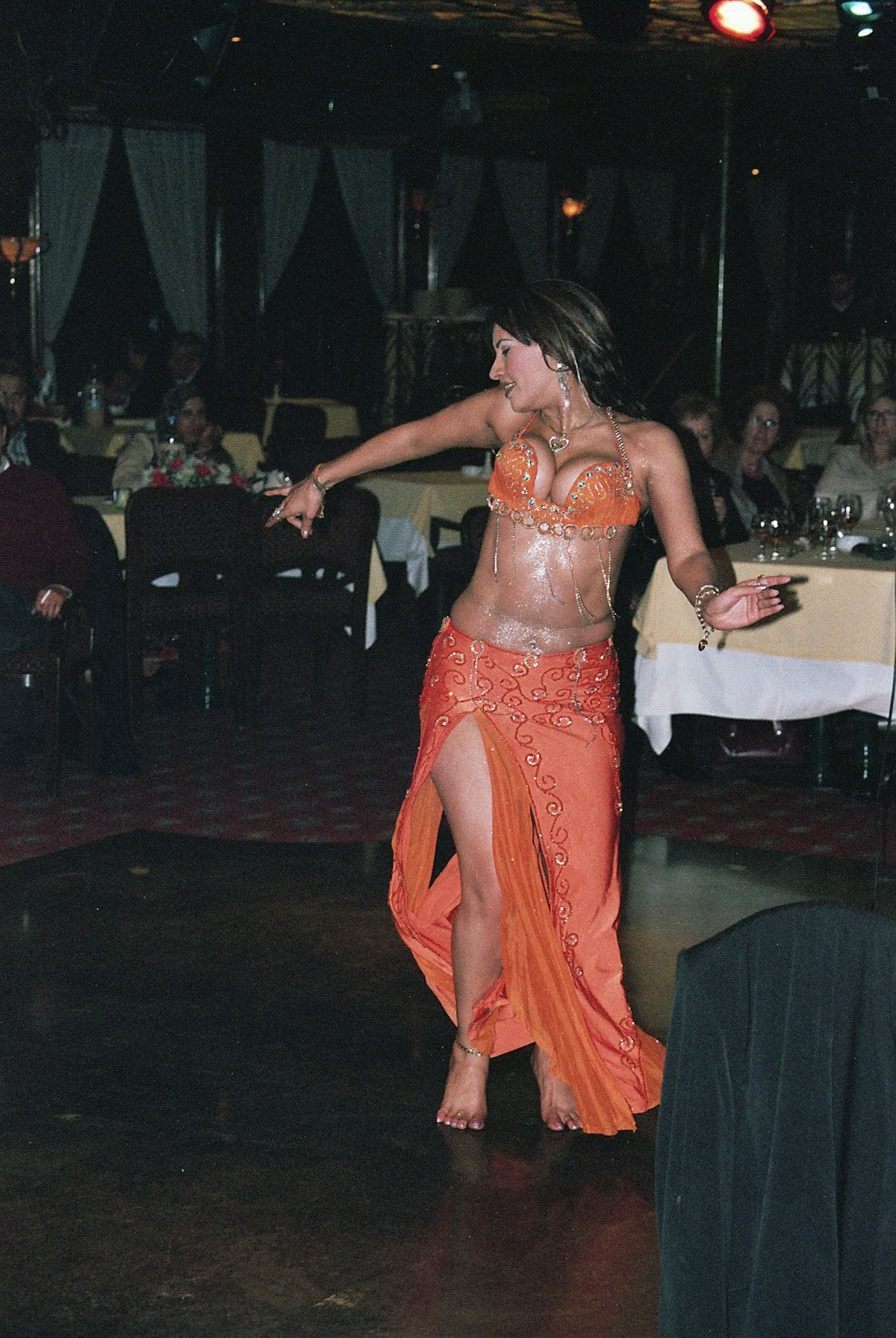 Egyptian bellydancer Randa Kamel dances in the floating restaurant Nile Maxim in Cairo (2007)